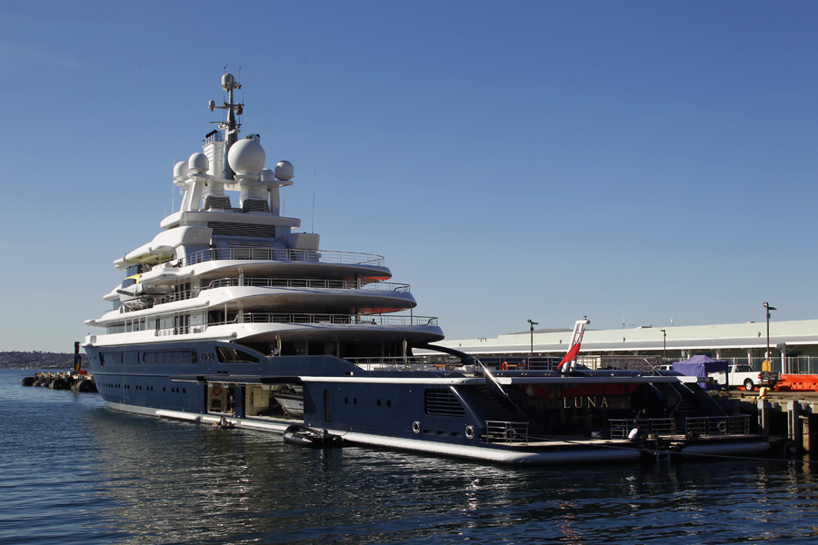 Roman Abramovich's motor yacht "Luna" docked in San Diego January, 2013. Photo by Sam Morris